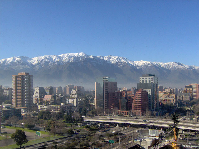 Photo from the modern Santiago de Chile with the Andes Mountains as a background.